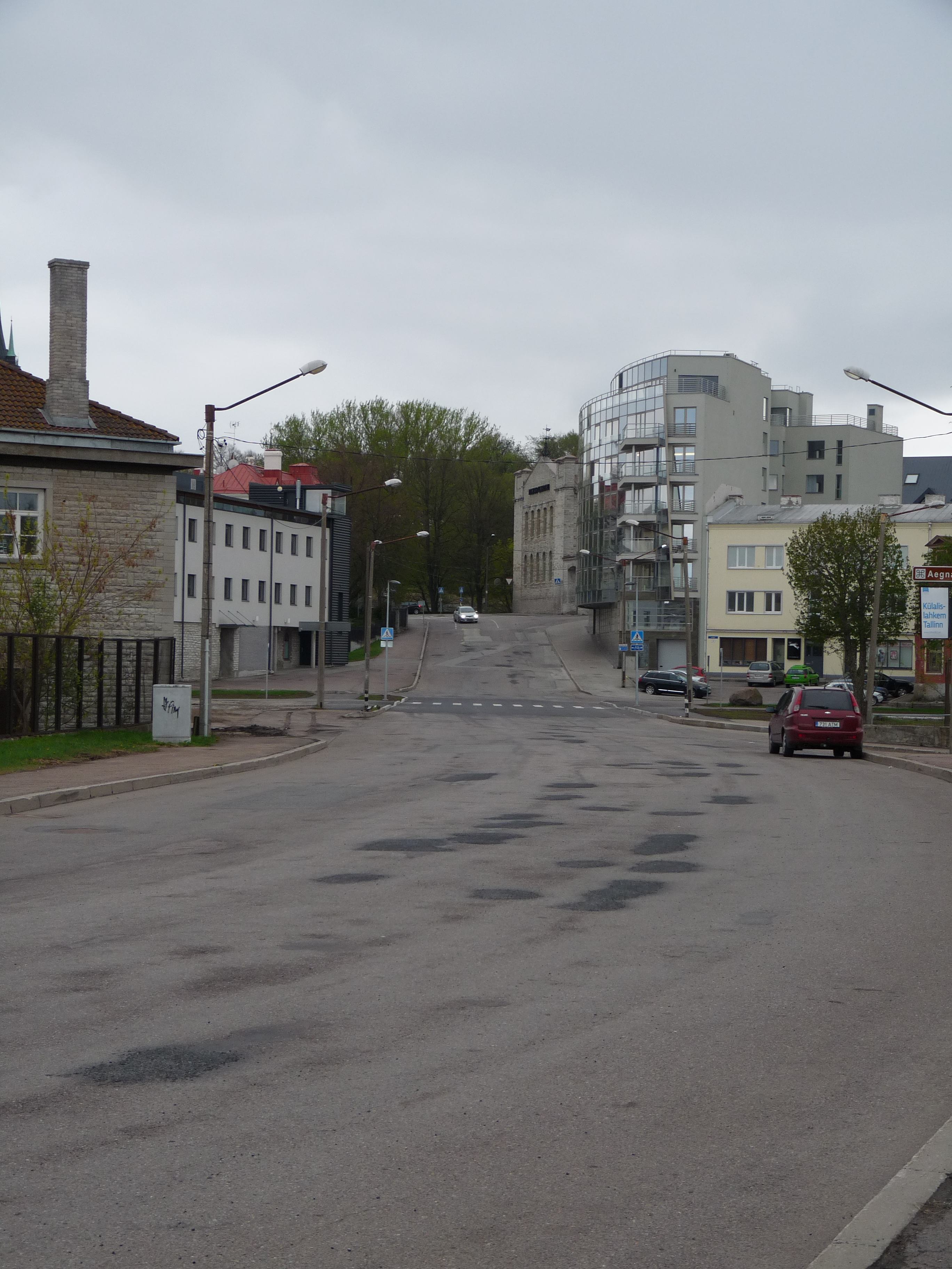 Kalasadama street in Tallinn.